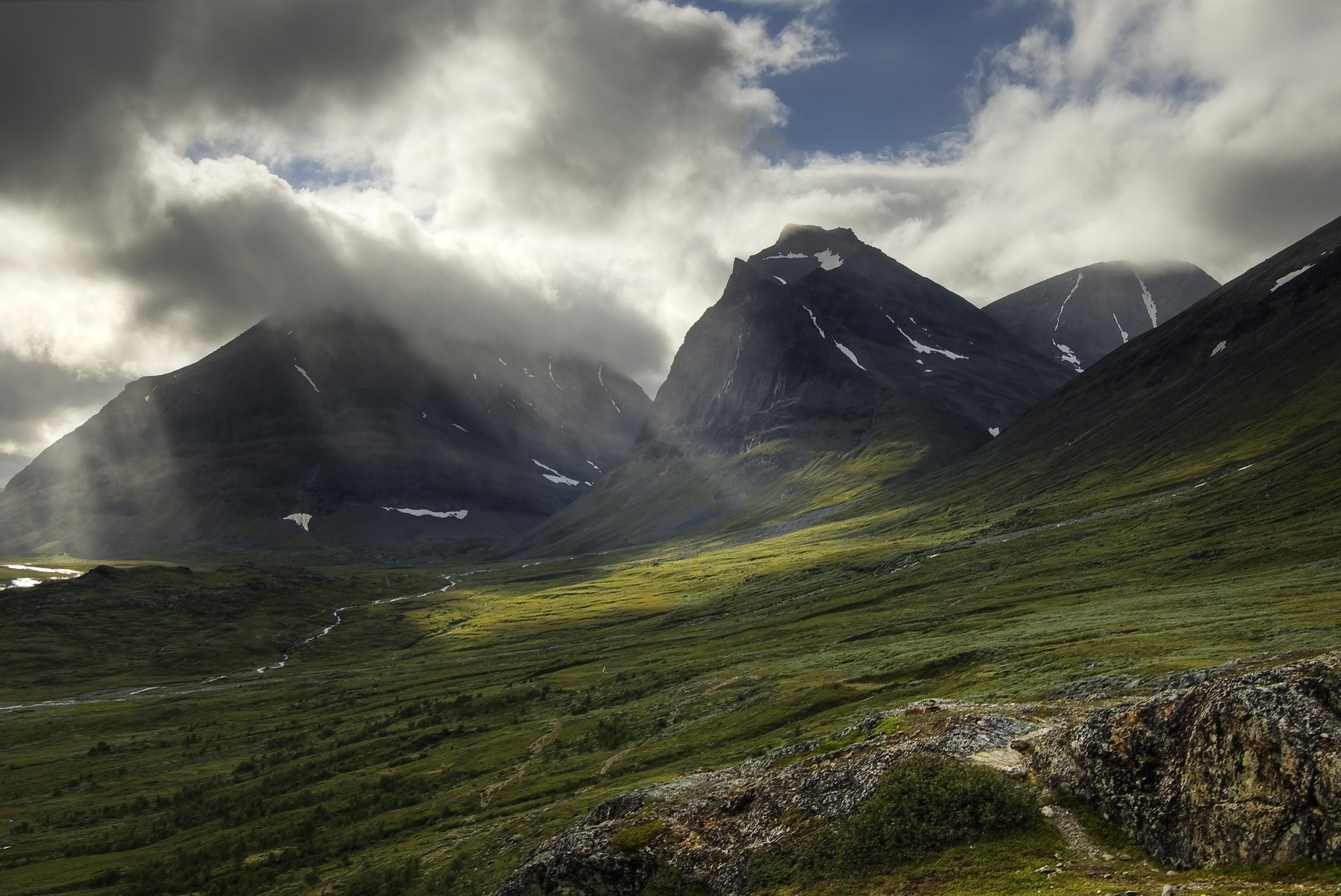 Mount Duolbagorni in the Kebnekaise valley, Lapland, Sweden.